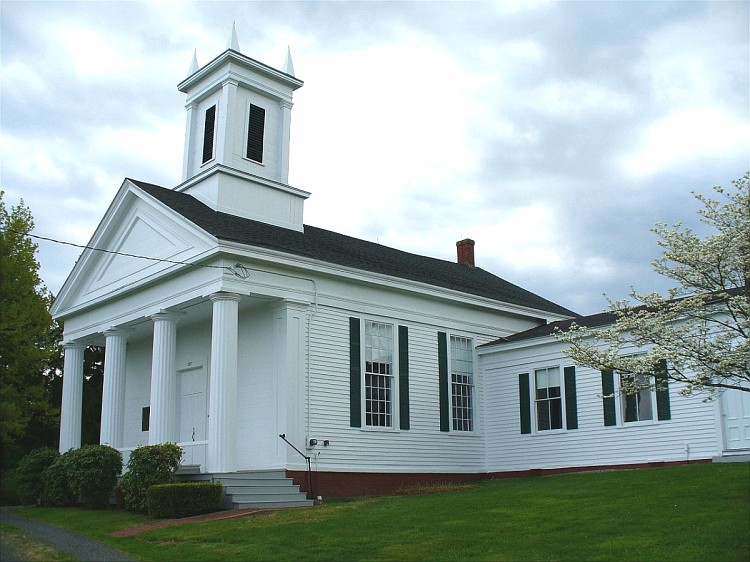 First Baptist Church, Suffield, Connecticut. Part of the Hastings Hill Historic District.